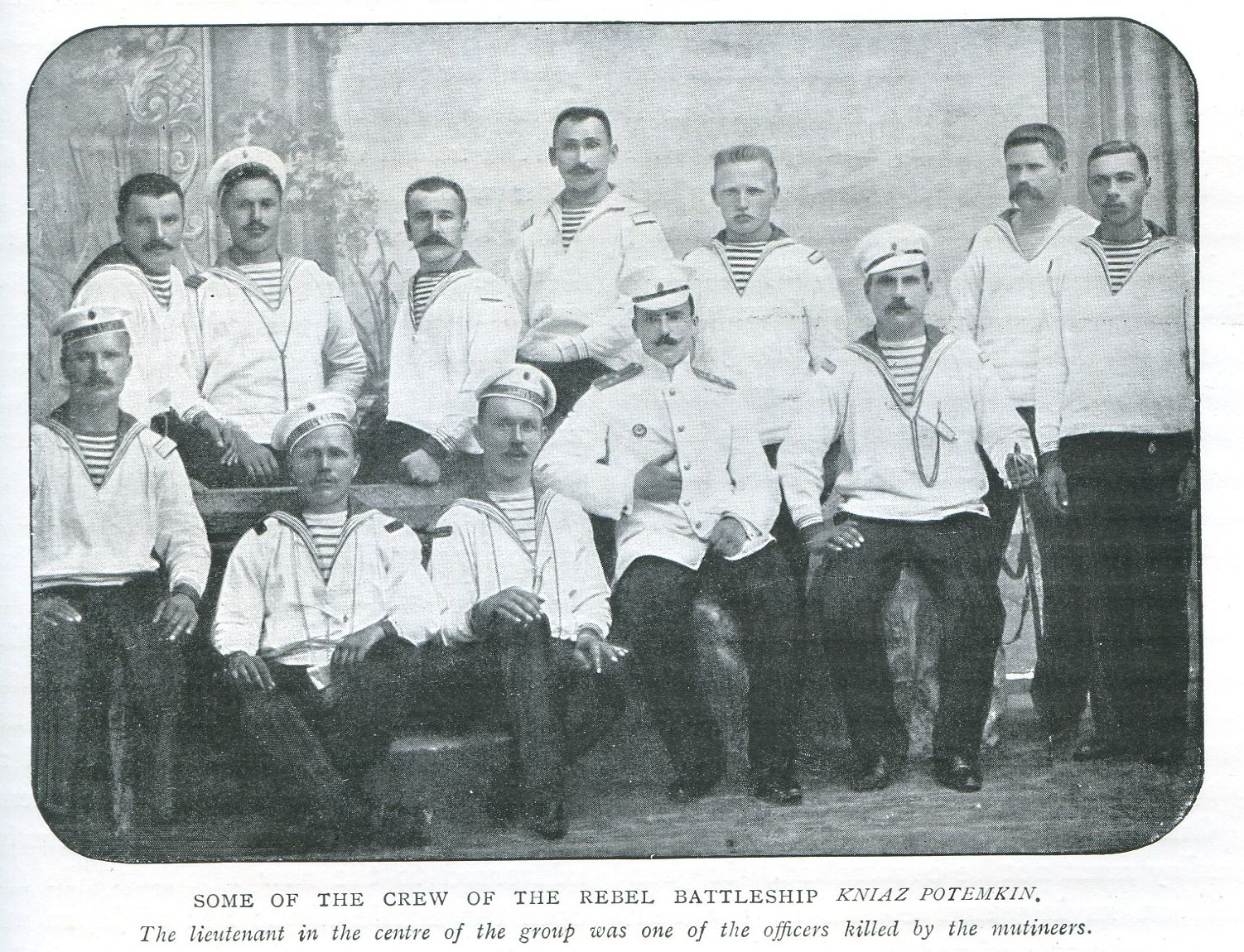 Some of the crew of the battleship Kniaz Potemkin. The leutenant in the center of the group was one of the officers killed by the rebels.